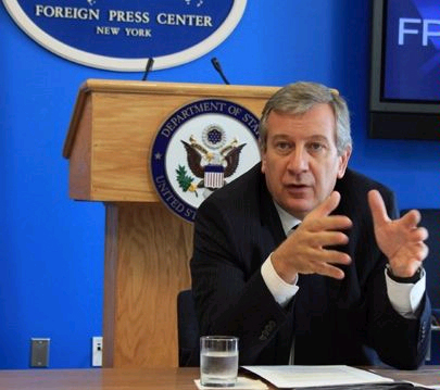 Moroccan businessman Richard Attias, delivering a briefing on "The New York Forum".